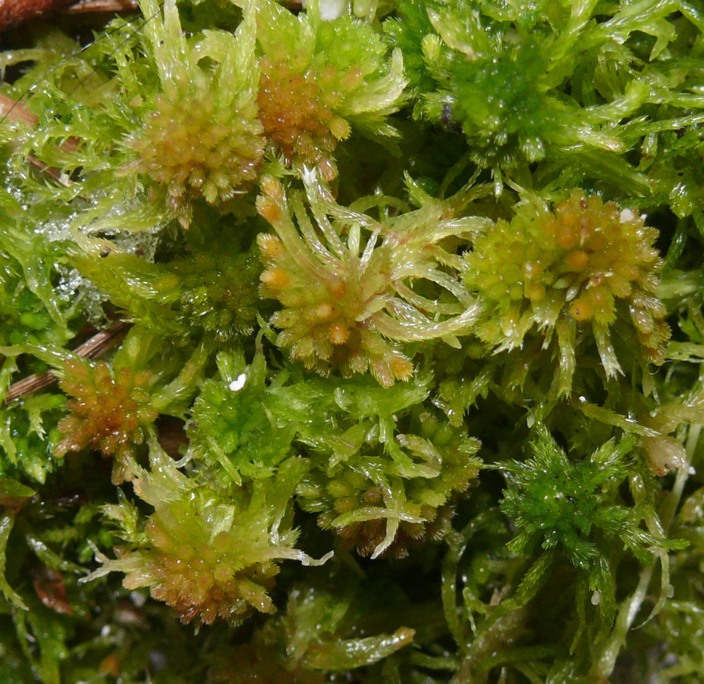 Sphagnum fallax, Hohenlohe, Germany